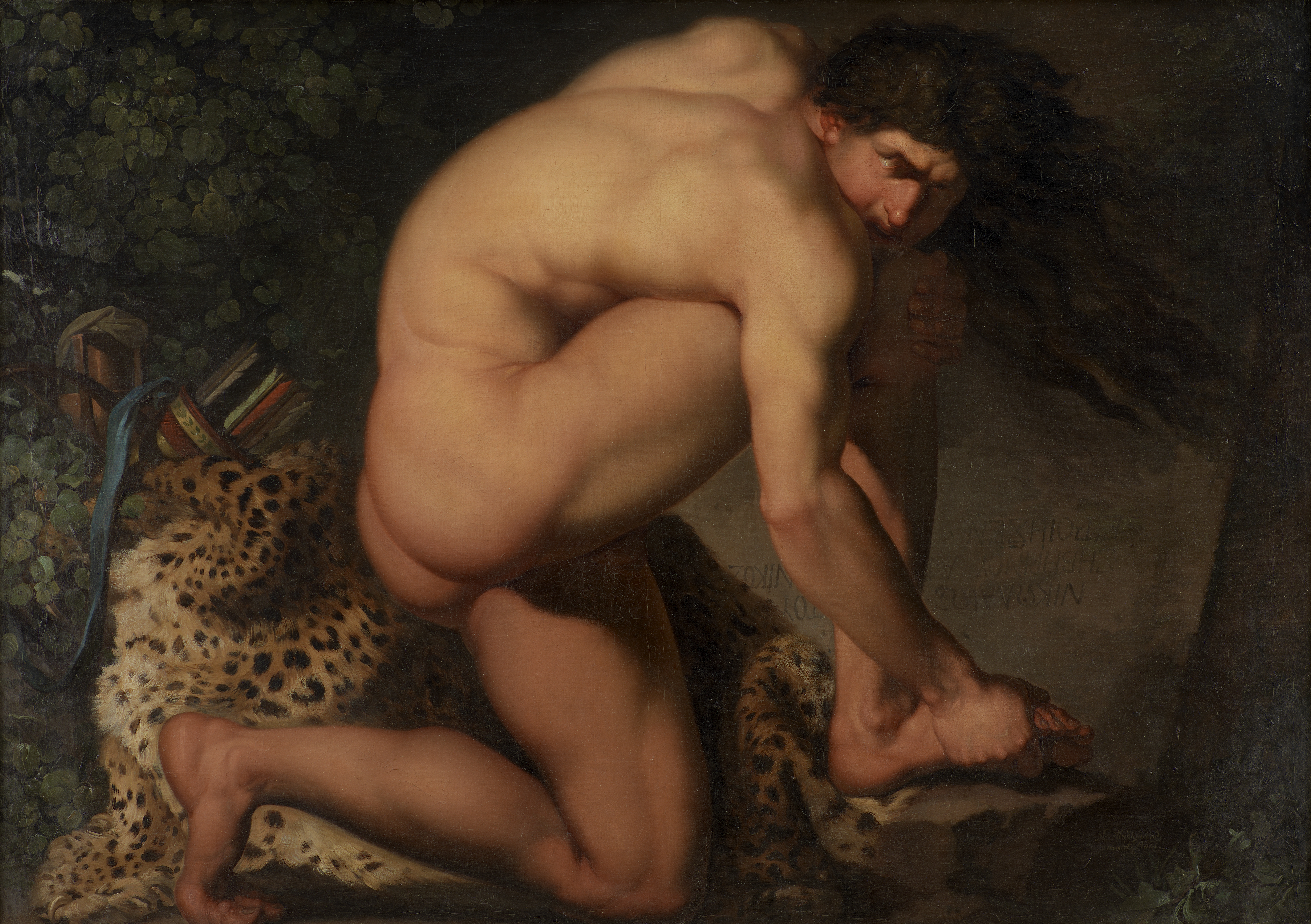 The Wounded Philoctetes from the Statens Museum for Kunst